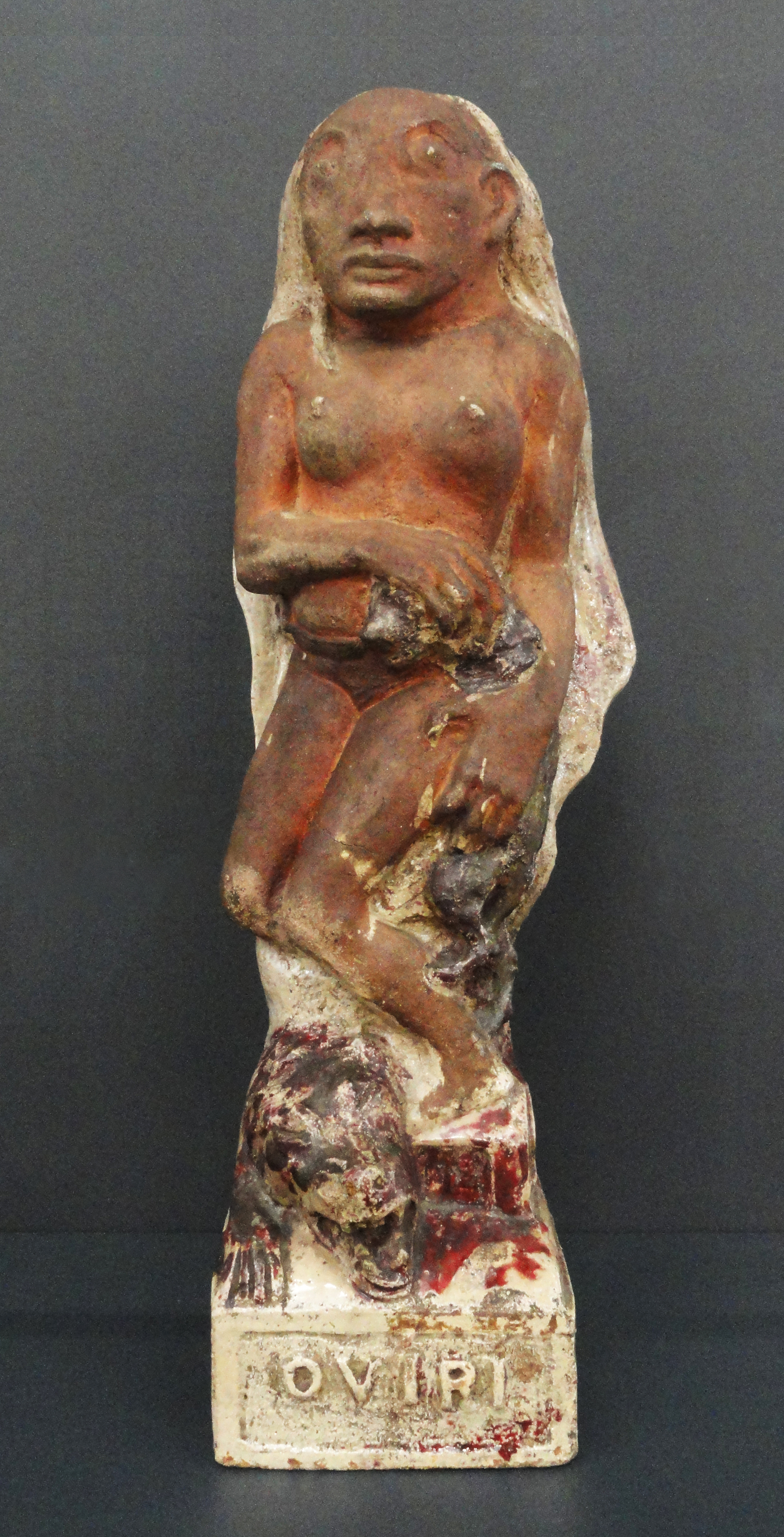 Paul Gauguin, 1894, Oviri (Sauvage), partially glazed stoneware (grès, céramique, terre cuite), 75 x 19 x 27 cm, Musée d'Orsay, Paris The theme of Oviri is death, savagery, wildness. Oviri stands over a dead she-wolf, while crushing the life out of her cub. As Gauguin wrote to Odilon Redon, it is a matter of "life in death". From the back, Oviri looks like Auguste Rodin's Balzac, a sort of menhir symbolizing the gush of creativity. Source